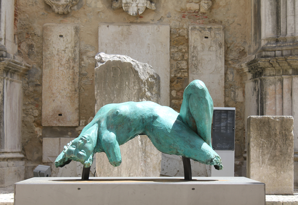 Rogério Timóteo - Tagide